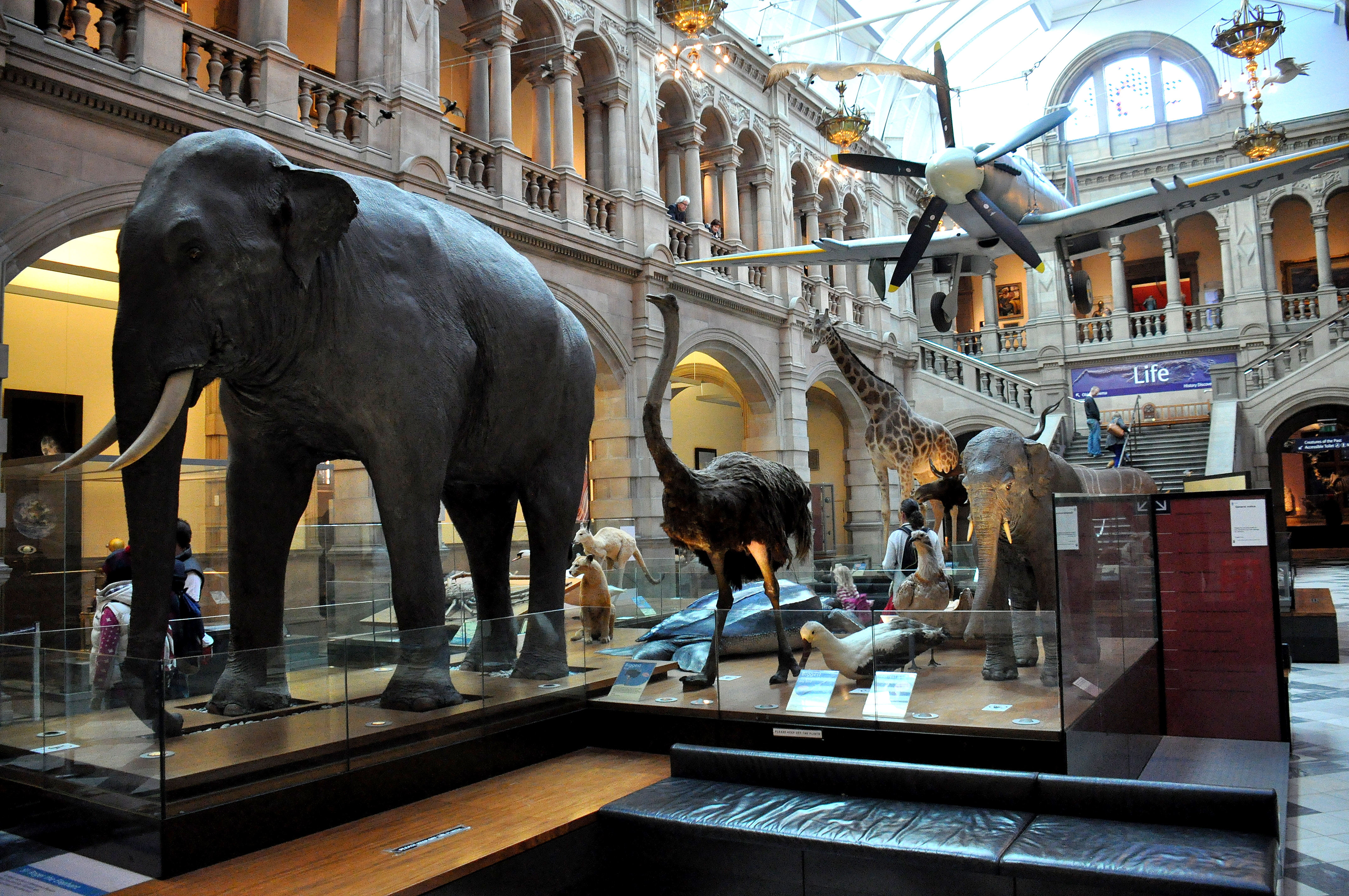 One of the halls of the museum. Kelvingrove Art Gallery and Museum, Glasgow, Scotland, the United Kingdom.